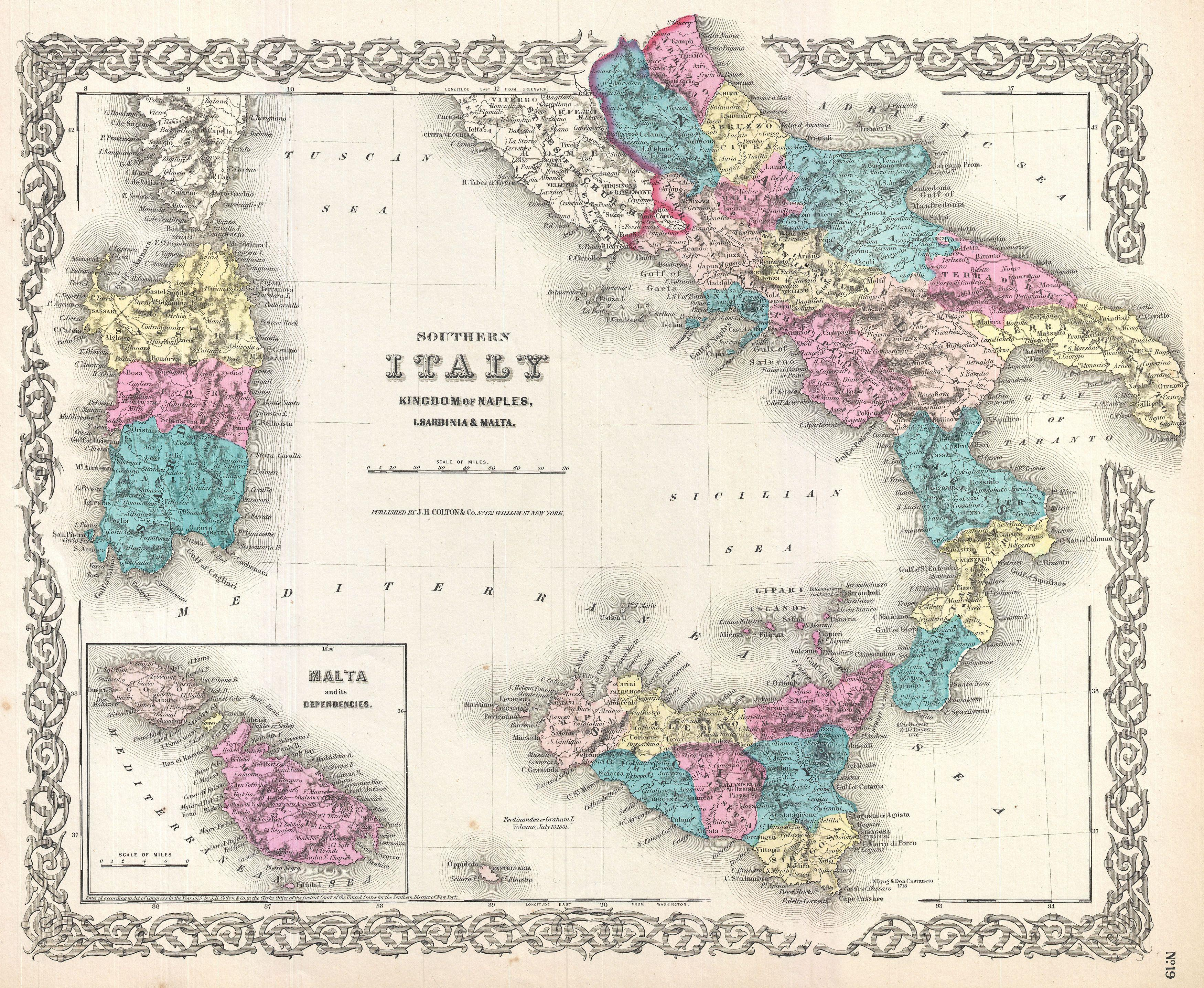 A beautiful 1855 first edition example of Colton's map of Southern Italy. Covers the southern part of the Italian peninsula from Abruzzo to Melito, inclusive of the Kingdom of Naples. Also includes the islands of Sicily and Sardinia. An inset map in the lower left quadrant details Malta and Gozo. Throughout, Colton identifies various cities, towns, forts, rivers, and an assortment of additional topographical details. Surrounded by Colton's typical spiral motif border. Dated and copyrighted to J. H. Colton, 1855. Published from Colton's 172 William Street Office in New York City. Issued as page no. 19 in volume 2 of the first edition of George Washington Colton's 1855 Atlas of the World .